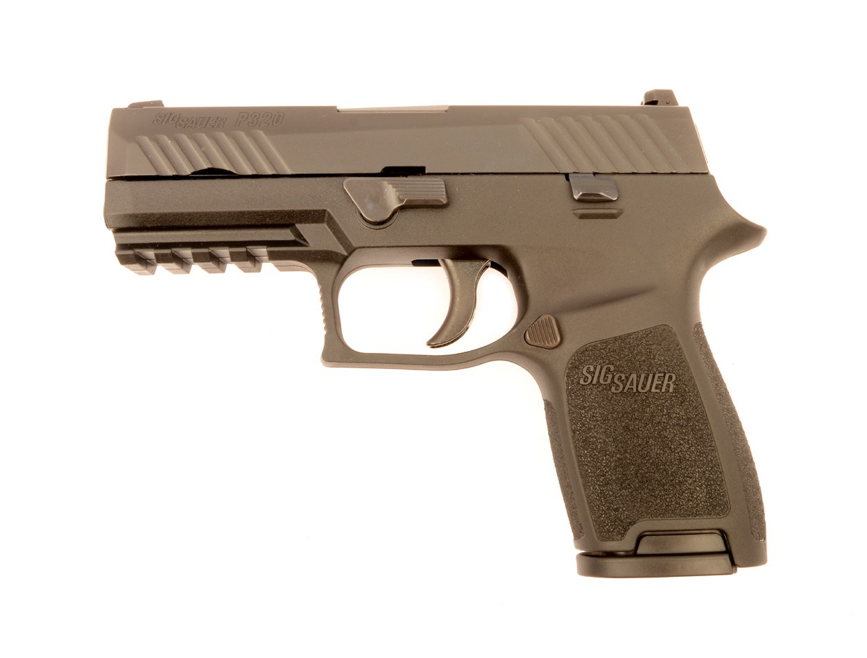 SIG Sauer P320 compact pistol